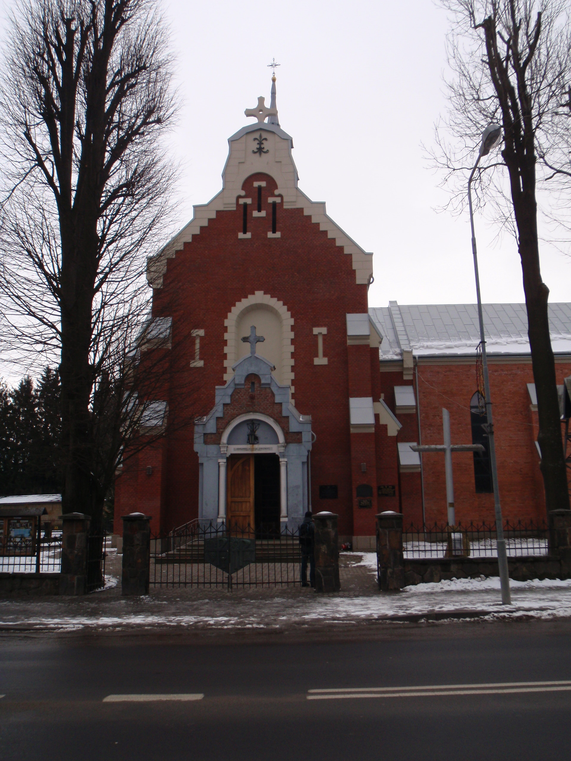 Church of Saint Mary Queen of Poland in Ustrzyki Dolne